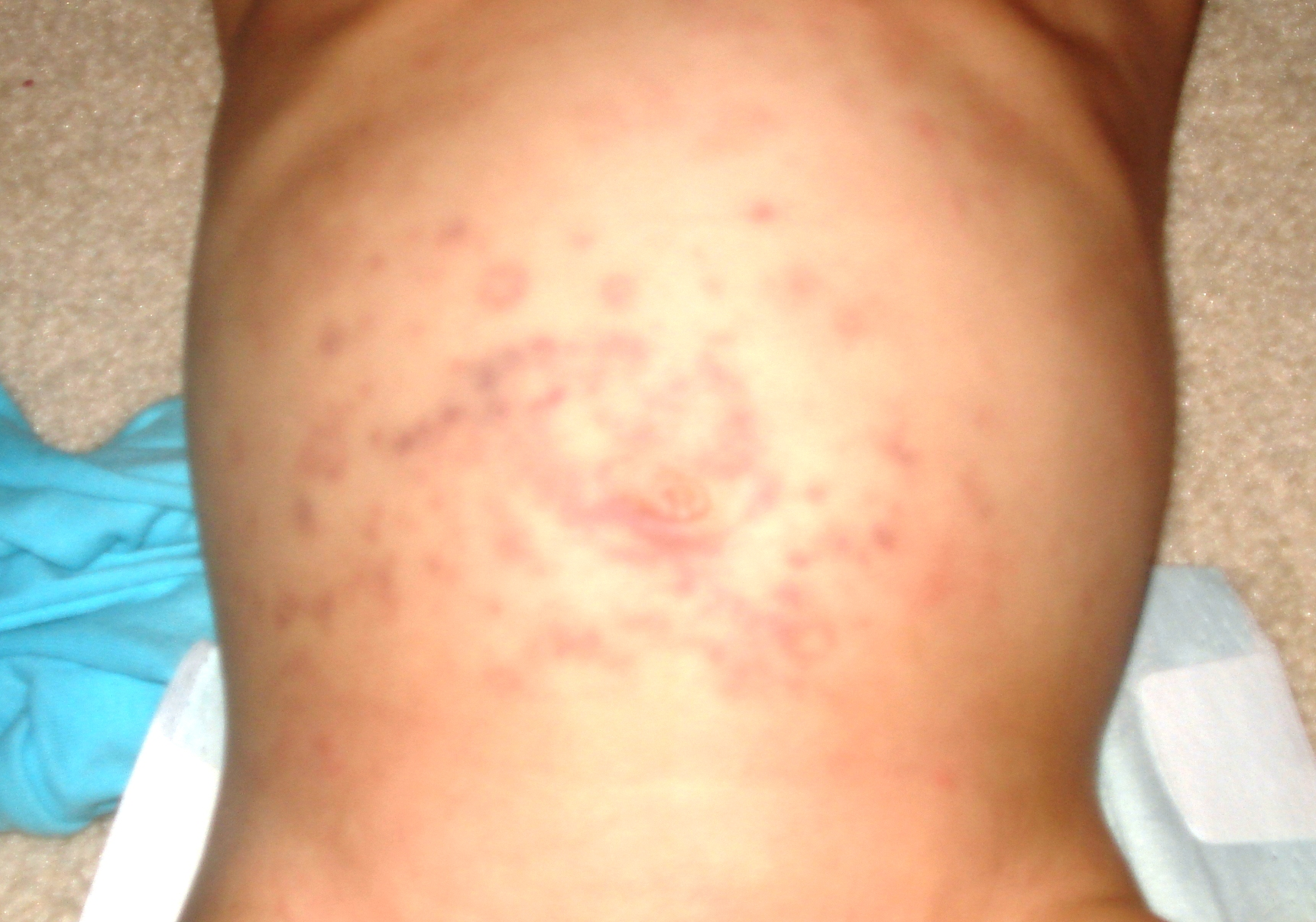 This picture was taken by me of my two year old daughter. This was taken on the third day after presentation of the rash. The initial stage of the rash appeared to look like chicken pox, the second day it looked like hives, the third day it was varied all over her body, from red and target like, to pink welts, to the purple rash beneath the skin that did not blanch when pressed, as shown in this picture. The suspected, not confirmed, cause of this is a delayed severe allergic reaction to penicillin antibiotics. On Day 9 of the 10 day antibiotic treatment the rash occurred. She is currently being treated with corticosteroids, a controversial treatment, but in light of the consequences of letting it go untreated, I felt it was worth it. She is responding well so far and the rash is disappearing. Another thing to mention is that she was having trouble walking the night before I took her to the doctor. Apparently this syndrome also can affect the joints.Kaleysmom71 19:23, 18 February 2007 (UTC)